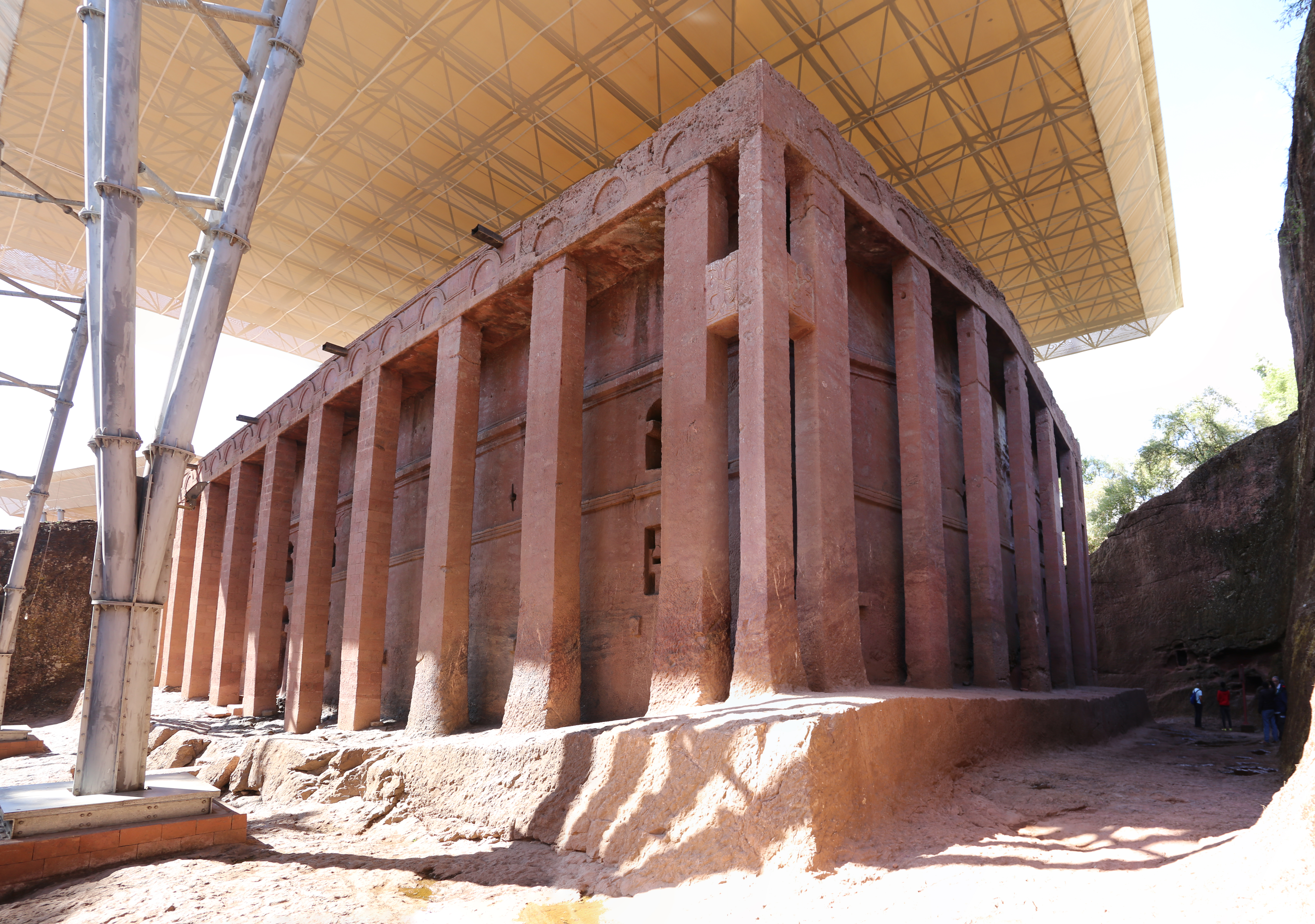 Biete Medhani Alem